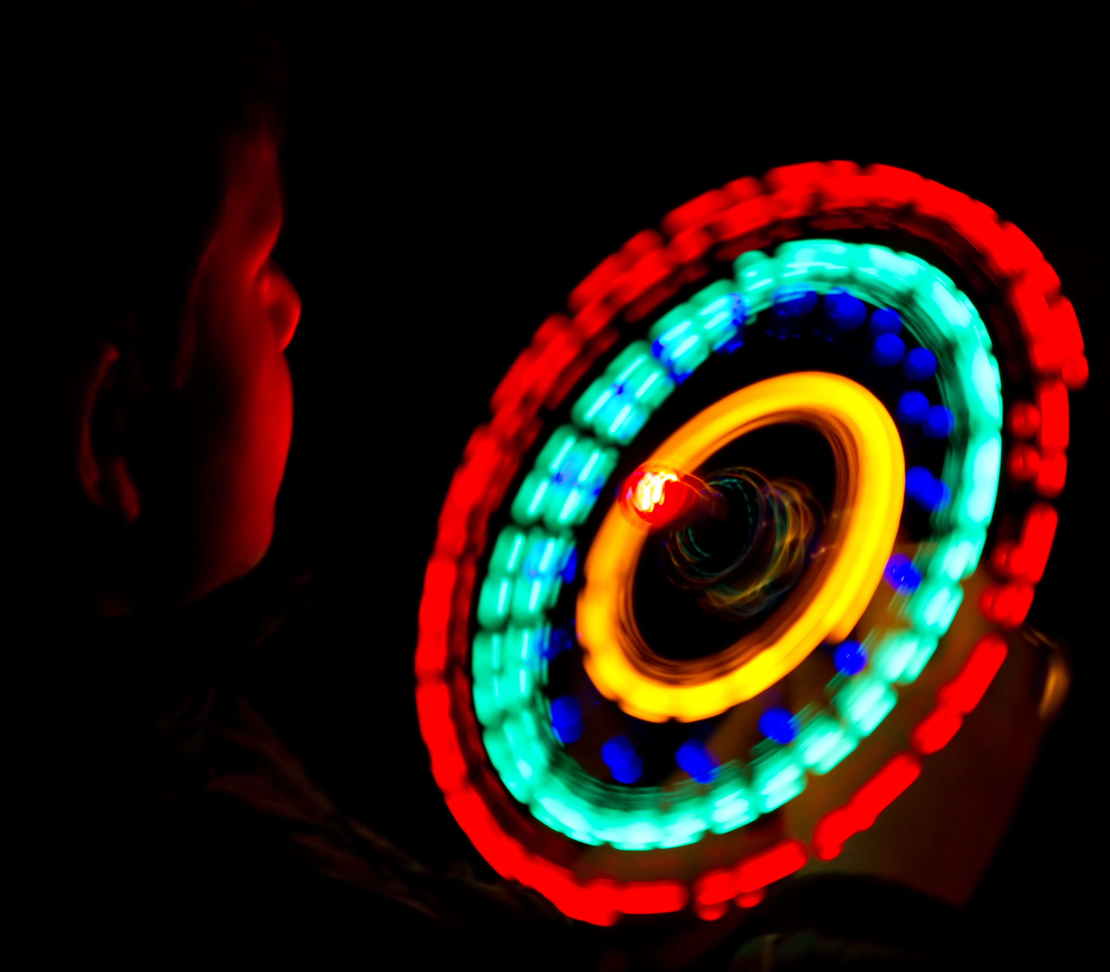 Waiting for the New Year in Victoria square Birmingham